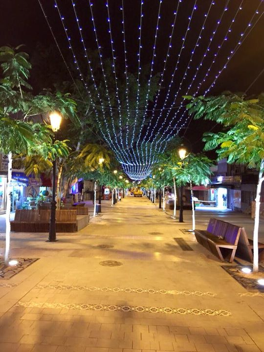 Pedestrian Ashkelon